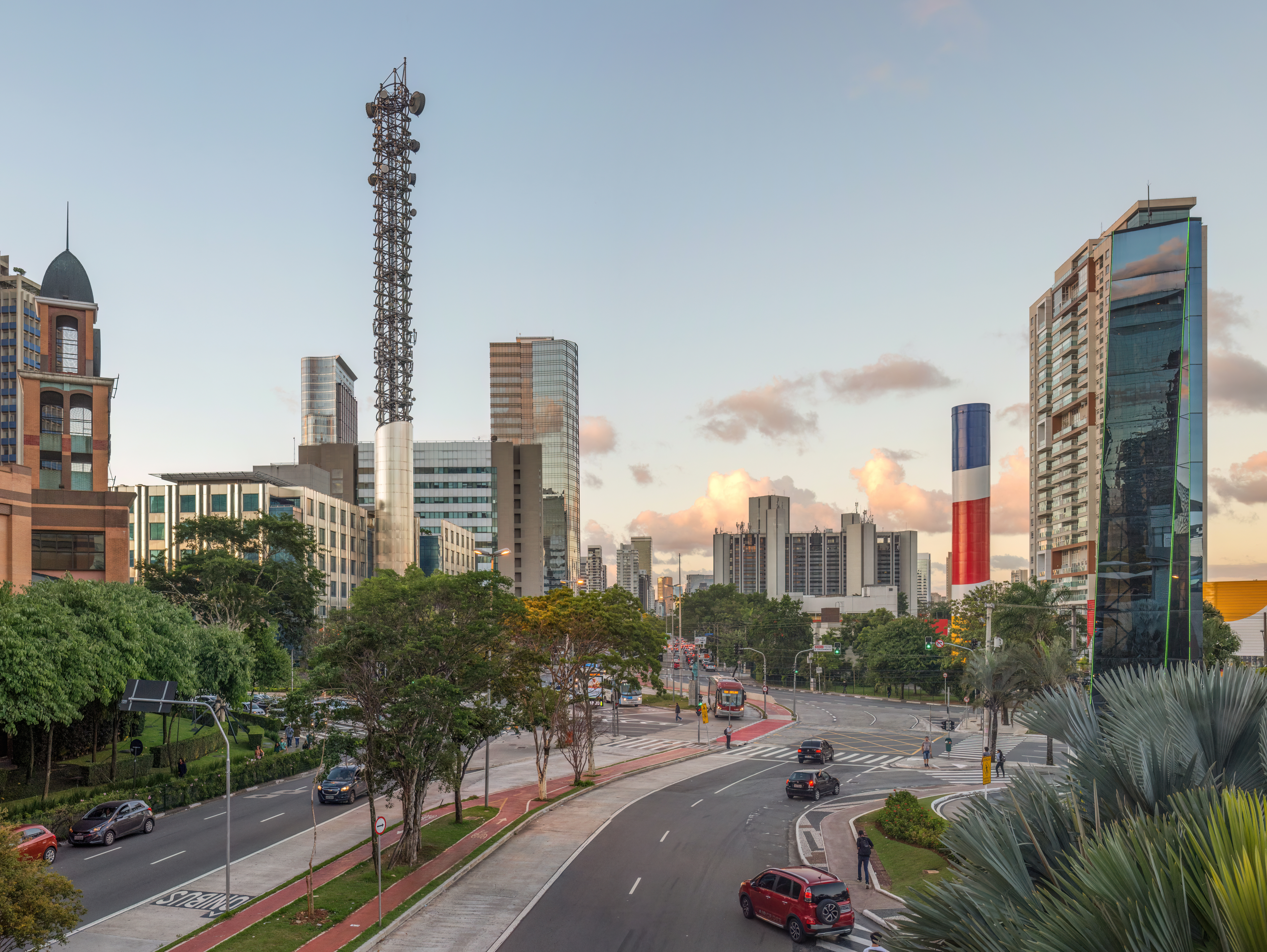 Panorama of Morumbi, São Paulo